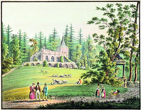 Abbey in Bukowiec, Poland (formerly Buchwald)